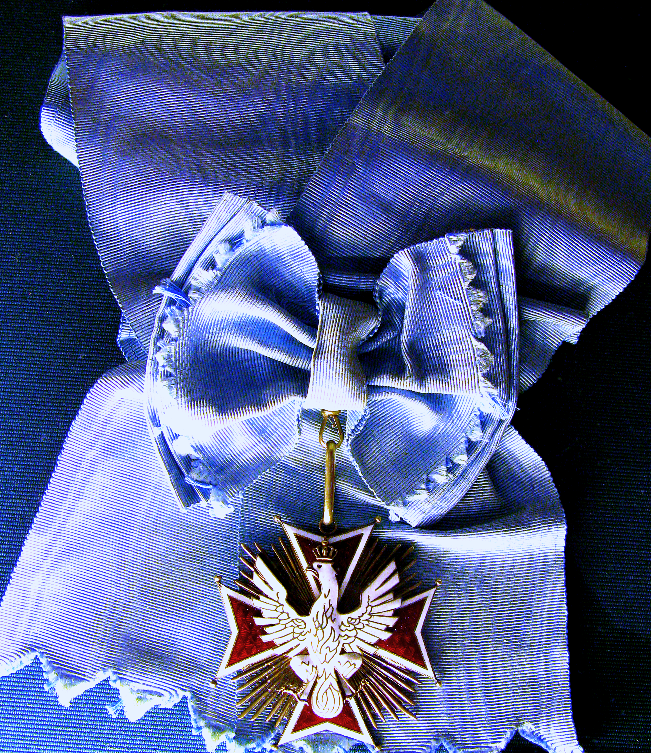 Gross with Cordon Bleu of Order of the White Eagle